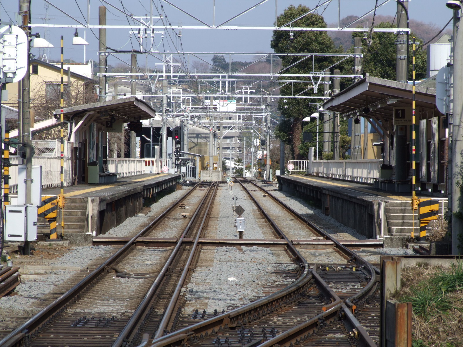 The precincts of Iriuda station,Hakone Tozan Railwey,Kanagawa,Japan Lover of Romance take a photograph.